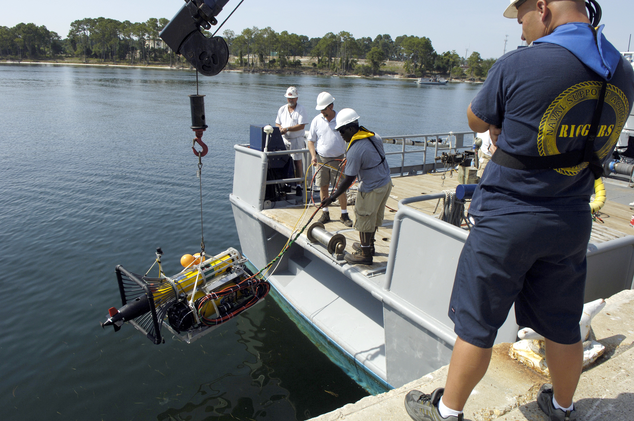 PANAMA CITY BEACH, Fla. (June 11, 2007) - Remote Environmental Monitoring Units (REMUS) with an autonomous docking station from Woods Hole Oceanographic Institution (WHOI) is lowered into the water pierside during the Autonomous Underwater Vehicle (AUV) Fest 2007, hosted by the Naval Surface Warfare Center Panama City and sponsored by the Office of Naval Research. AUV Fest is the largest in-water demonstration of unmanned underwater, surface, air and ground vehicles. U.S. Navy photo by Mr. John F. Williams (RELEASED)